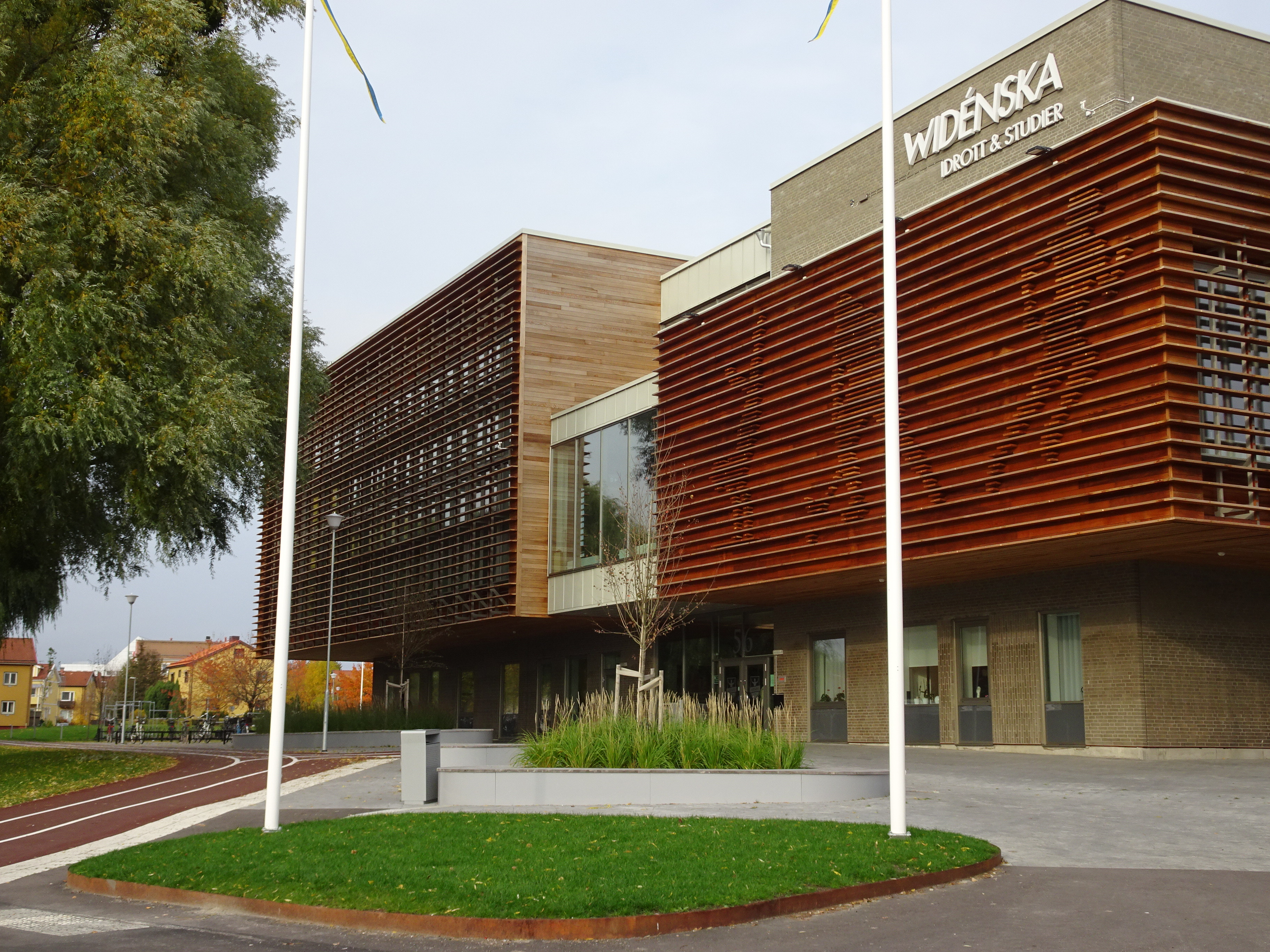 Widénska, a secondary school focusing on athlethics in Västerås, Sweden.